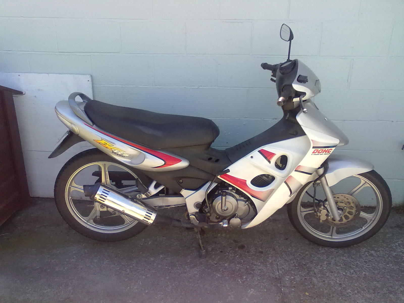 Suzuki fx125. Photo taken by me in Christchurch, New Zealand.